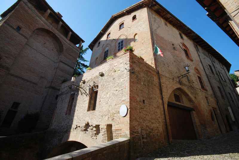 Two historic buildings in Castell'Arquato: on the right the Ducal Palace from 1292, on the left Farnese Tower from 1527 and later